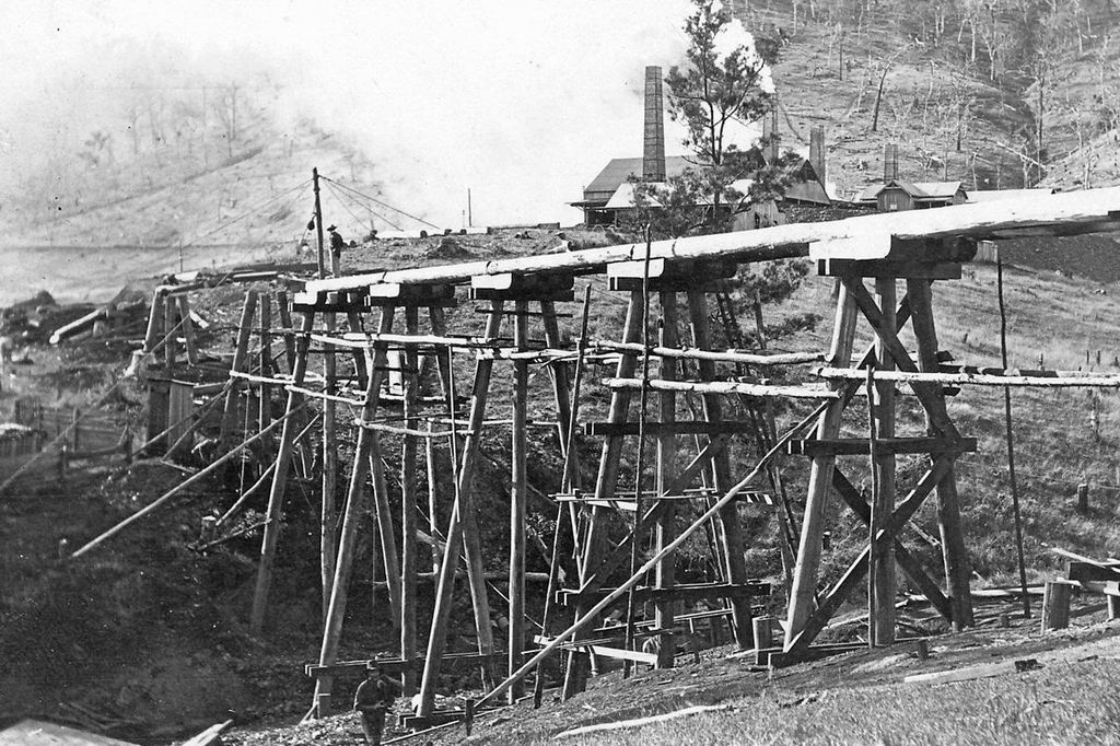 Construction of the tramway at Cangai Copper Mine. It was opened in 1911, extended in 1912 and closed in 1917. It was over four miles long and transported firewood into the smelters to heat the furnaces.